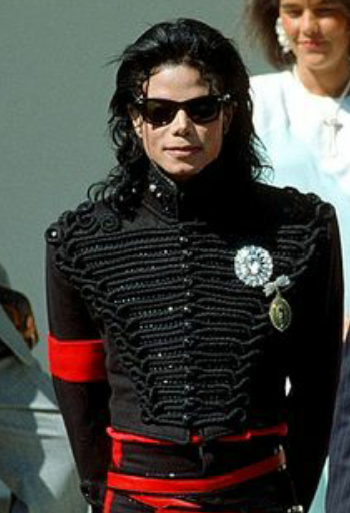 President George H. W. Bush meets Michael Jackson at White House in 1990